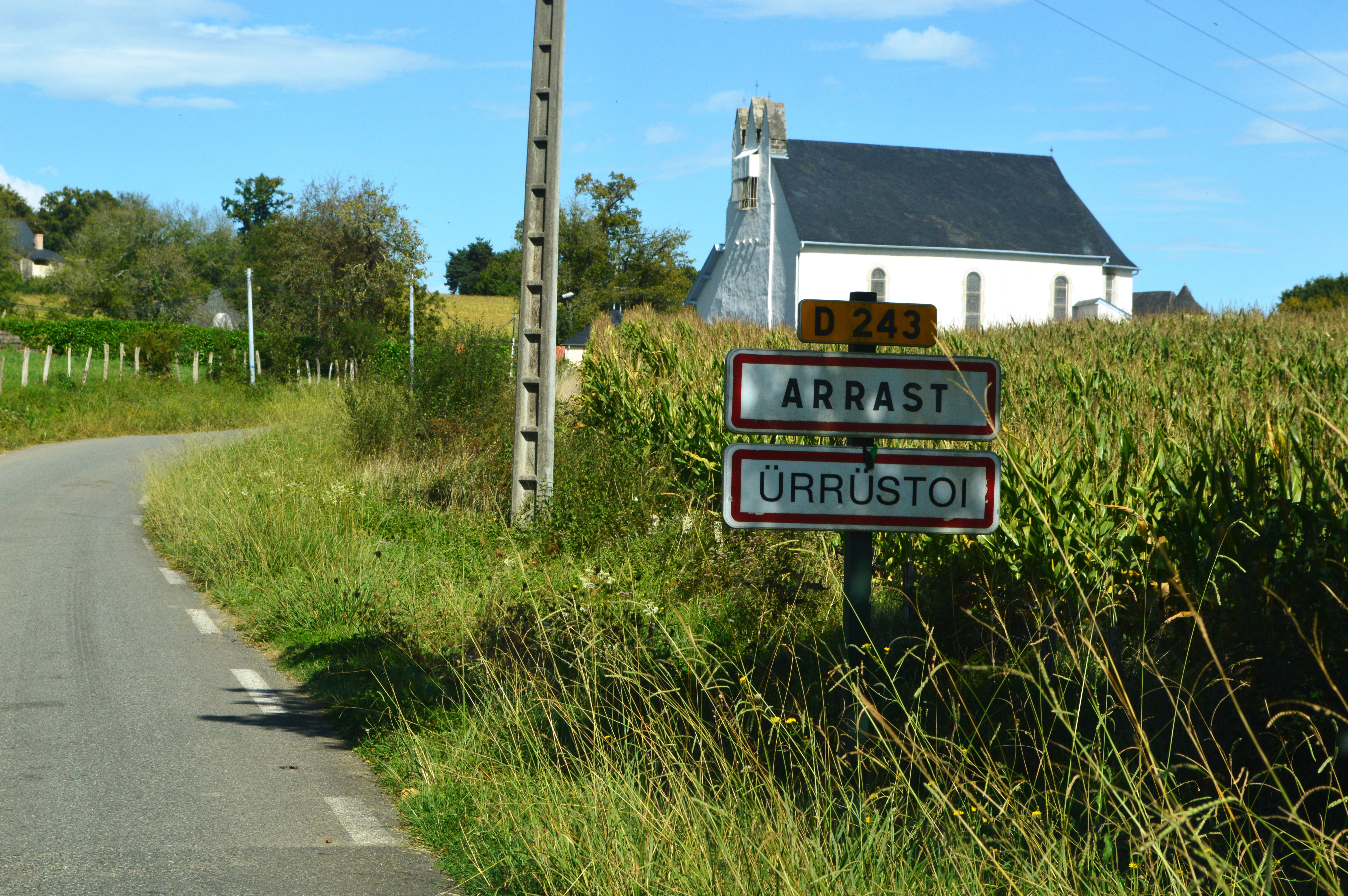 Arrast Entry